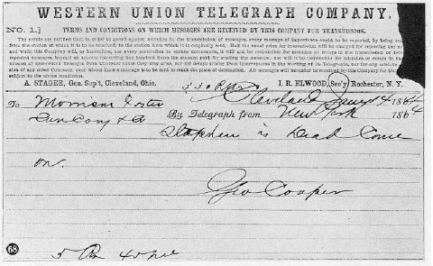 Telegram announcing Stephen Foster's death in 1864